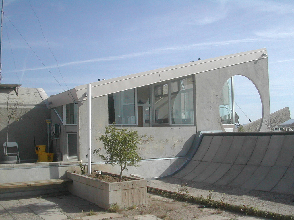 The premo place to stay at Arcosanti.